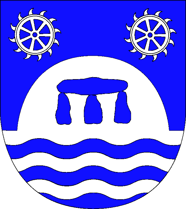 Coat of arms of the municipality Warder in Schleswig-Holstein, Germany.